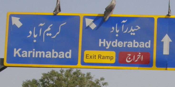 Road Heading Signs.